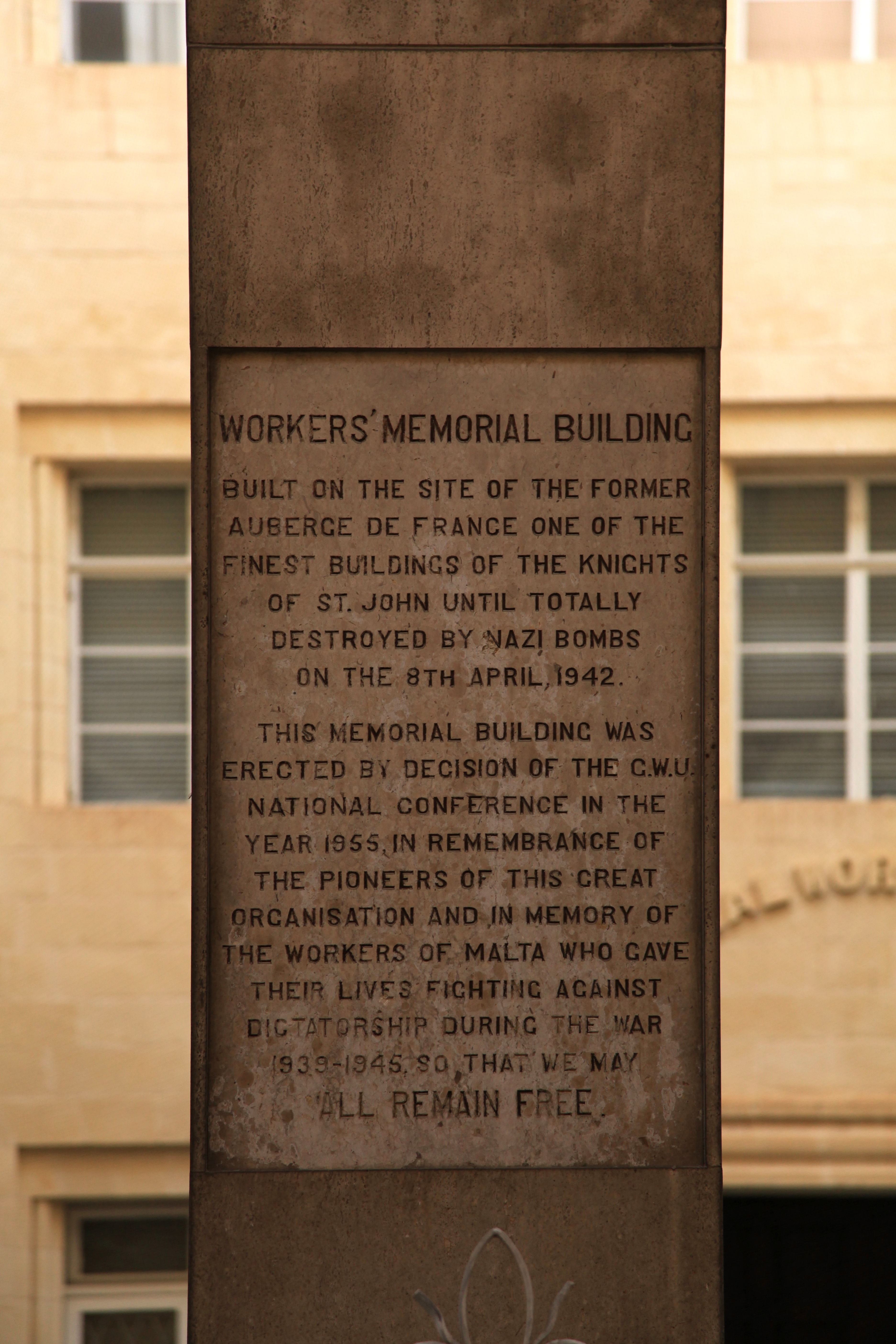 Workers' Memorial Building, Triq il-Fran / Triq Nofs-in-Nhar in Valletta, Malta